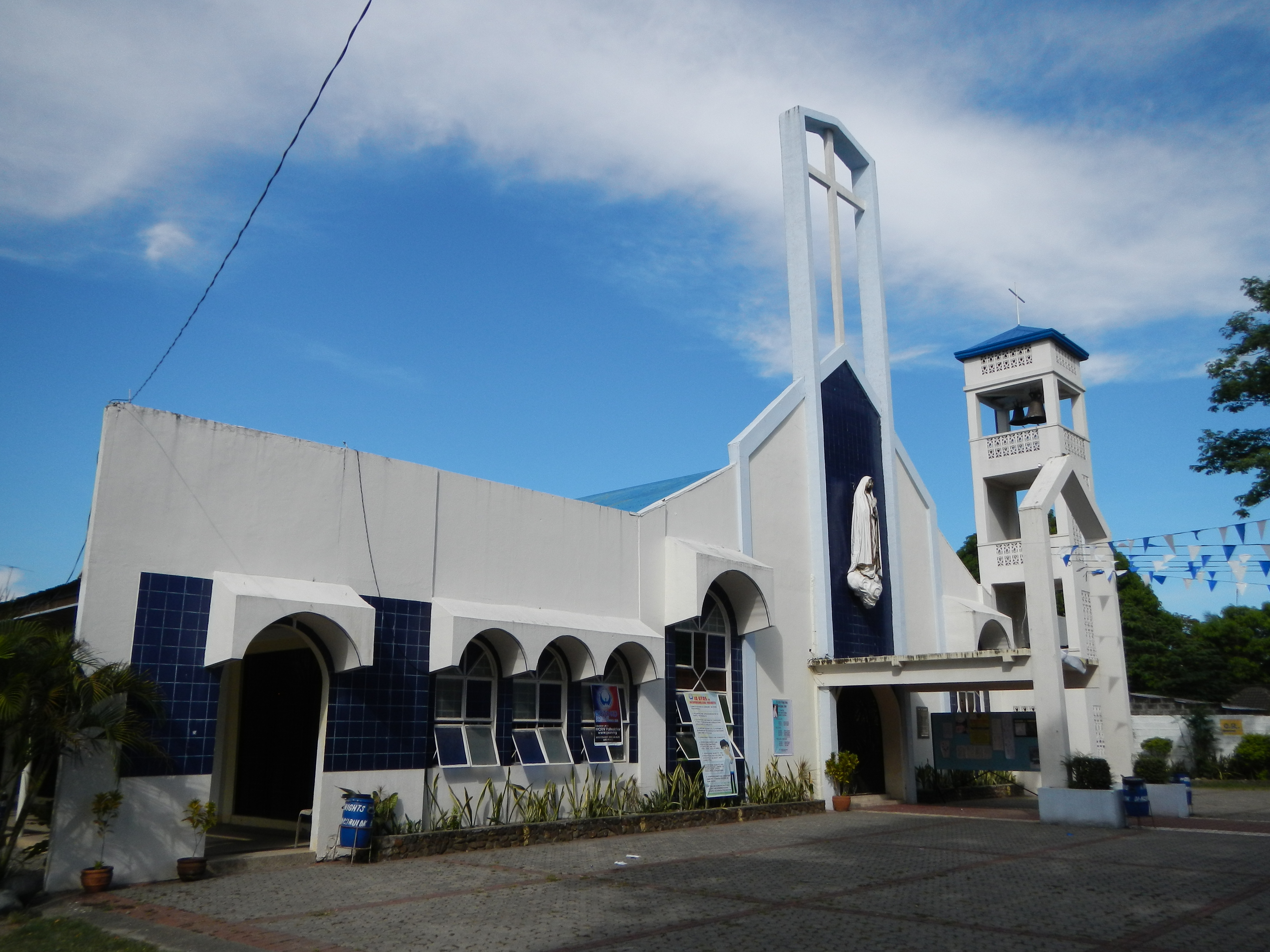 Our Lady of Fatima Parish Church of Santa Ignacia (F-1949) - Santa Ignacia, Tarlac[1] is a second class municipality in the province of Tarlac, Philippines. According to the 2010 census, it has a population of 43,787 people. Santa Ignacia is politically subdivided into 24 barangays.[2] [3] SANTA IGNACIA: TOWN OF INTREPID ARTISANS - [4]History of the town.Website This place is situated in Tarlac, Region 3, Philippines, its geographical coordinates are 15° 37' 4" North, 120° 26' 8" East and its original name (with diacritics) is Santa Ignacia. Coordinates: 15°35'1"N 120°27'19"E [6]Area: 146.07 km² ZIP Code: 2303[7]Our Lady of Fatima Parish (F-1949) - Santa Ignacia 2303 Tarlac, Philippines Titular: Our Lady of Fatima Parish Priest: Msgr. Allan Talavera Vicariate of St. Michael the Archangel Vicar Forane: Father Macario Ramos Roman Catholic Diocese of Tarlac[8]